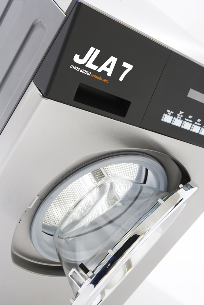 JLA7 Washer